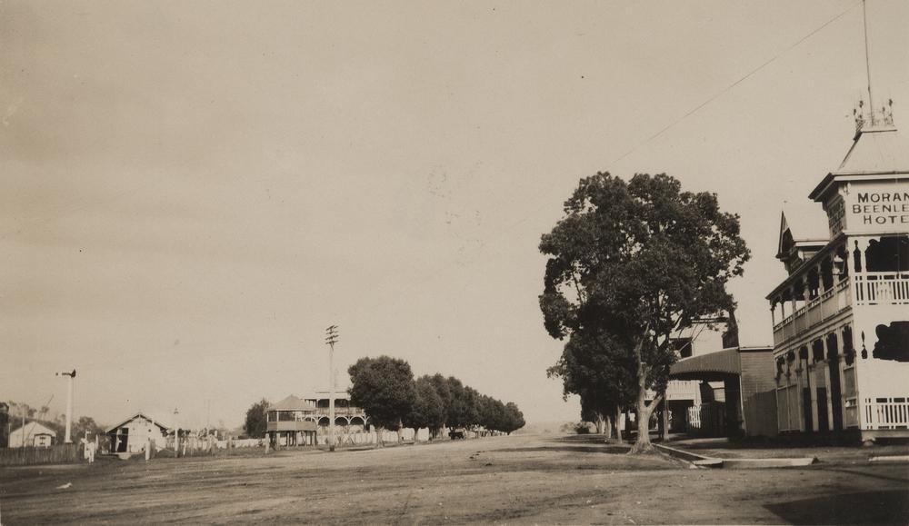 View of the main street in Beenleigh, 1908 Moran's Beenleigh Hotel is on the right.